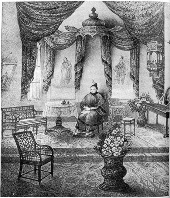 From the source: "Afong Moy in her 'room'. She is surrounded with 'exotic' Chinese items. The Carne Brothers had similar reproduction items for sale at the exhibition for viewers to remember their visit to the Chinese Lady."